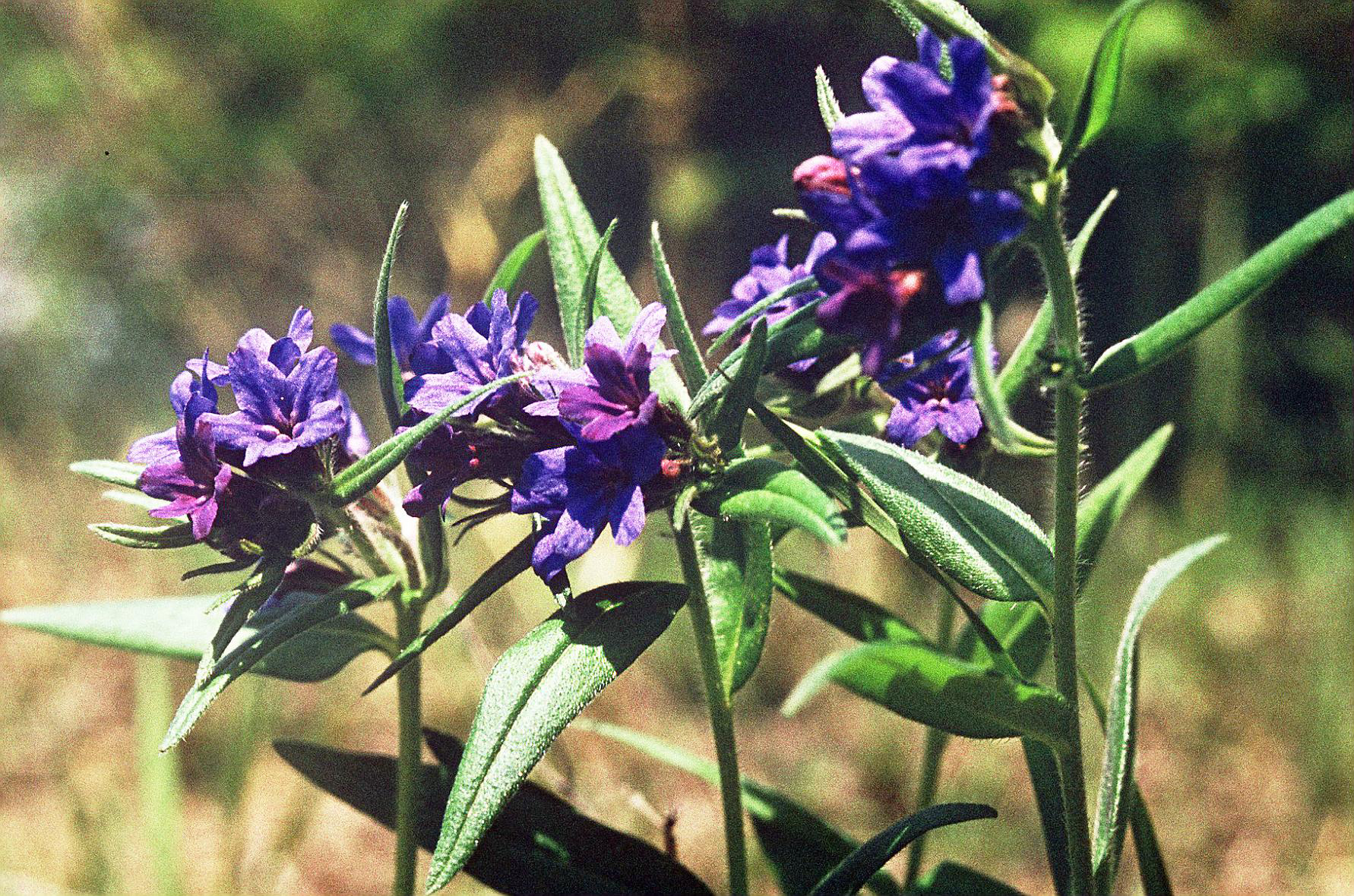 Taken in Mtskheta